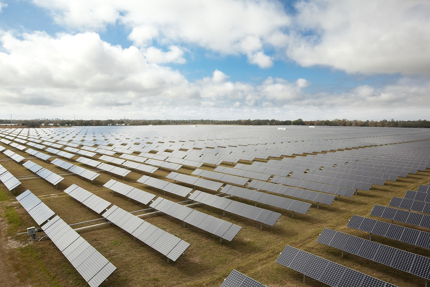 March 25, 2010 - Florida Power & Light Company's DeSoto Next Generation Solar Energy Center, a 25-MW solar power plant featuring high efficiency SunPower solar panels mounted on the SunPowerAE T0 Tracker. (Photo by SunPower Corporation) Foto: Divulgação